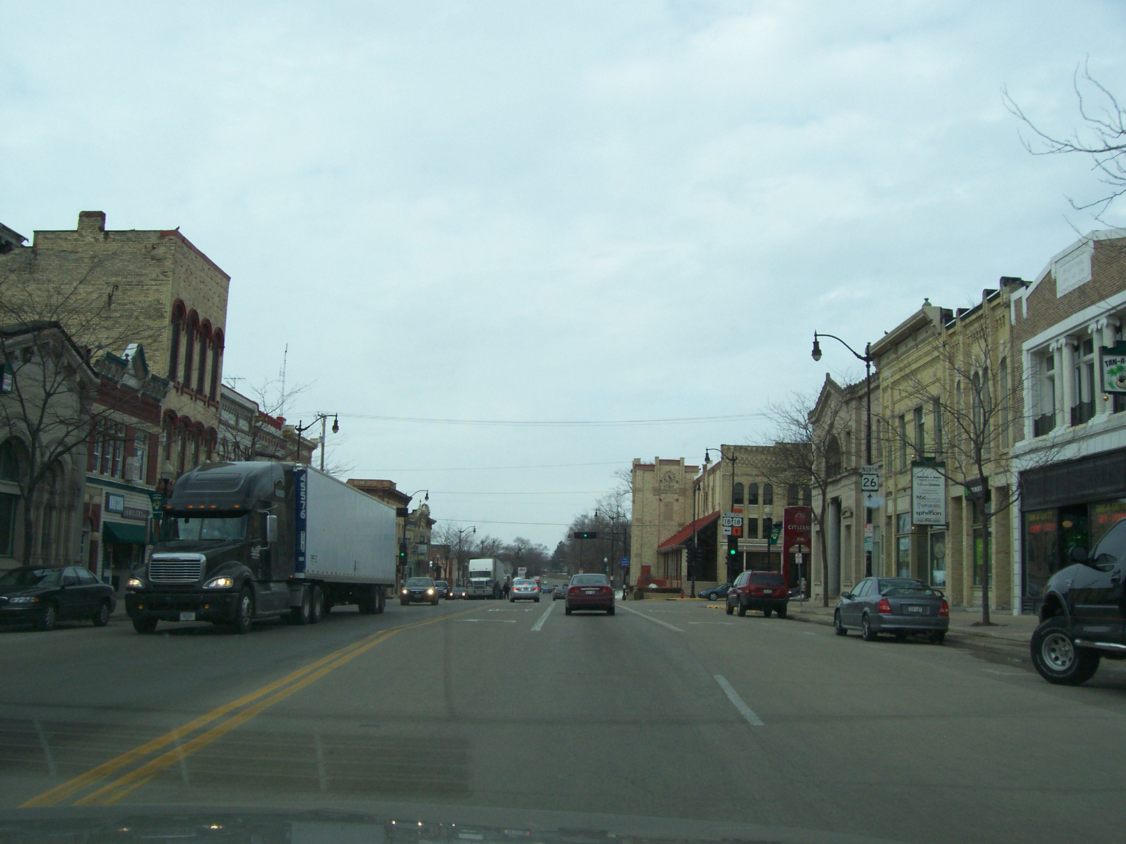 Downtown Jefferson, Wisconsin, USA in Jefferson County, Wisconsin on Wisconsin Highway 26 at its intersection with U.S. Route 18.